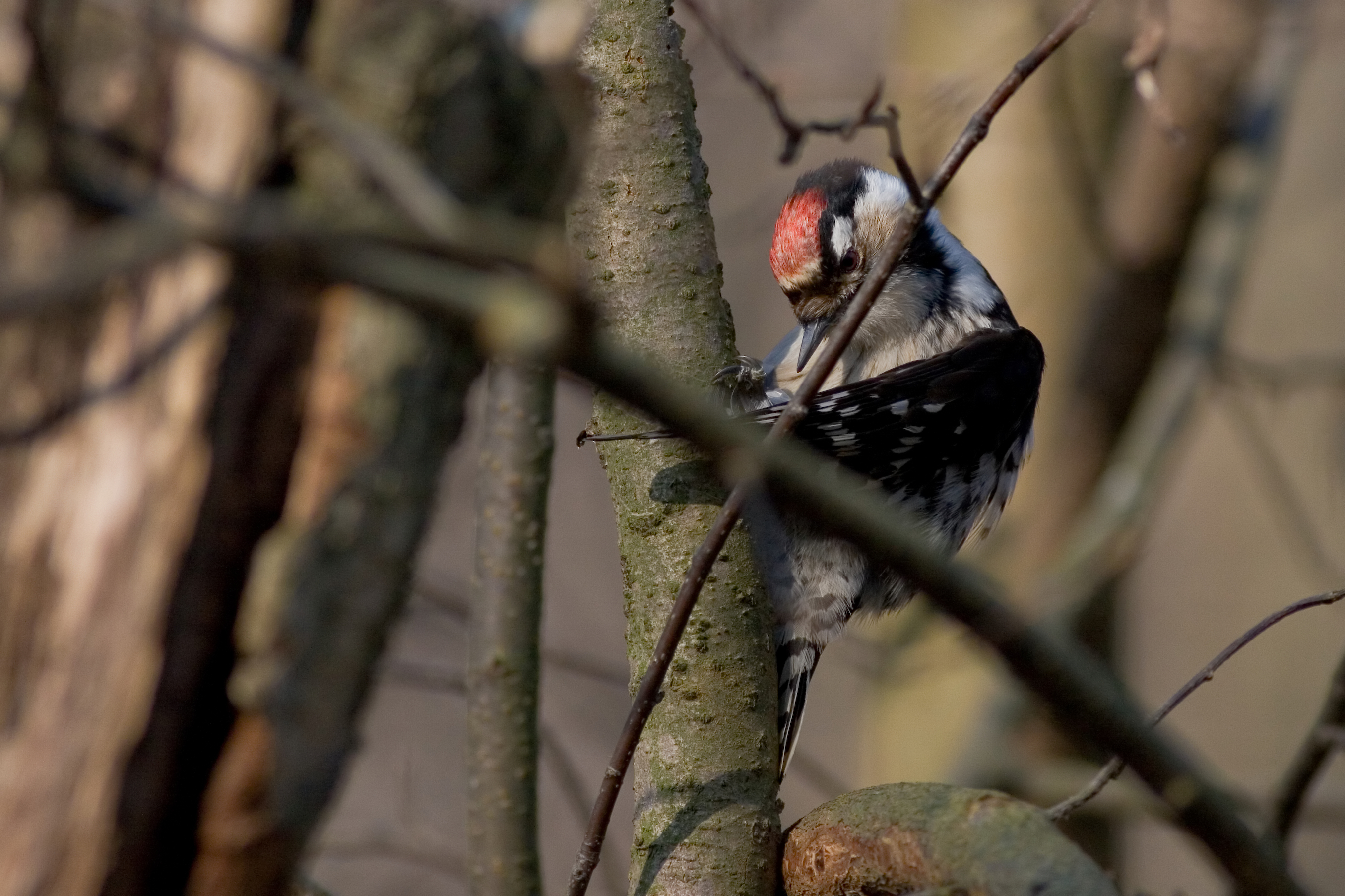 Lesser Spotted Woodpecker (Picoides minor or Dendrocopos minor) in natural habitat. Photo taken near Vanhankaupunginlahti, Helsinki, Finland. The location is listed in Ramsar "List of Wetlands of International Importance".